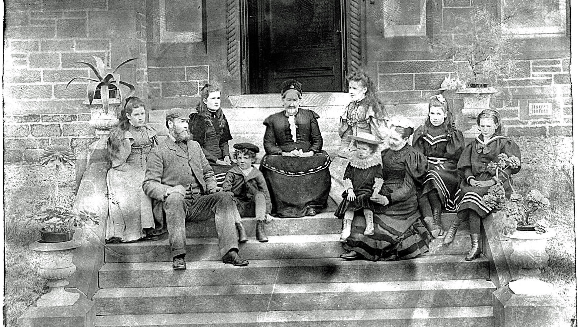 Montgomerie family at Dalmore House, Stair, East Ayrshire, Scotland. The house now a ruin.